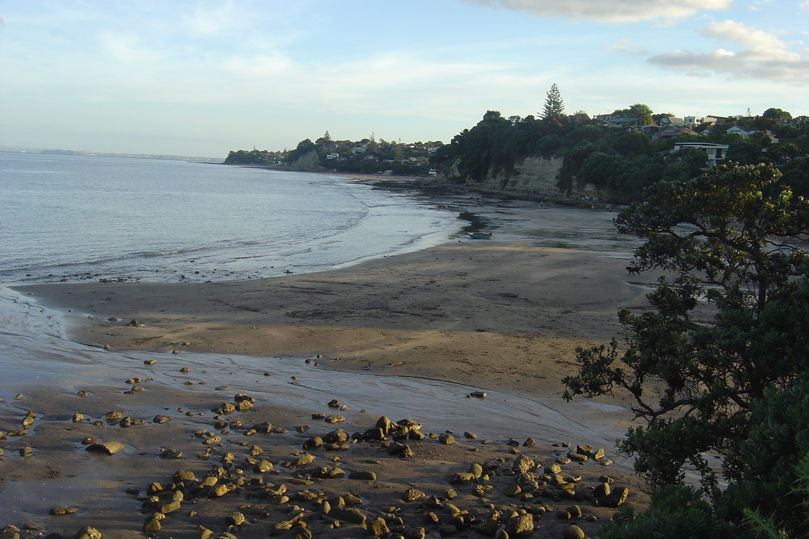 Murrays Bay at low tide - January 2009